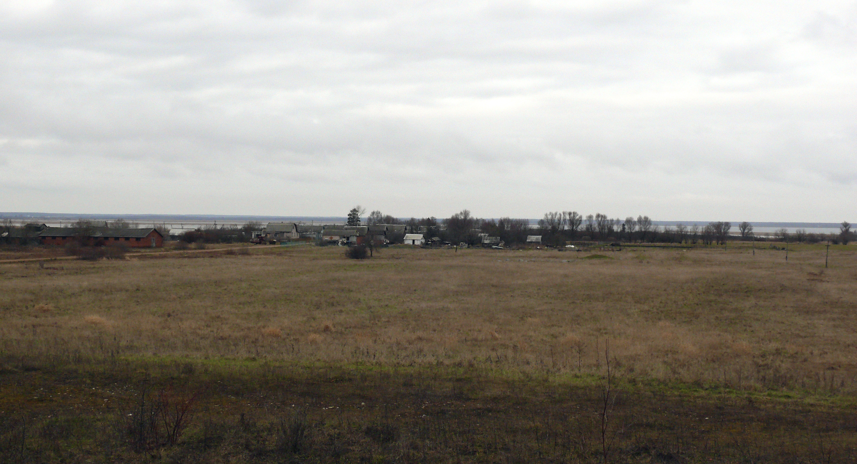 Mston village. Shimsky district, Novgorod oblast, Russia